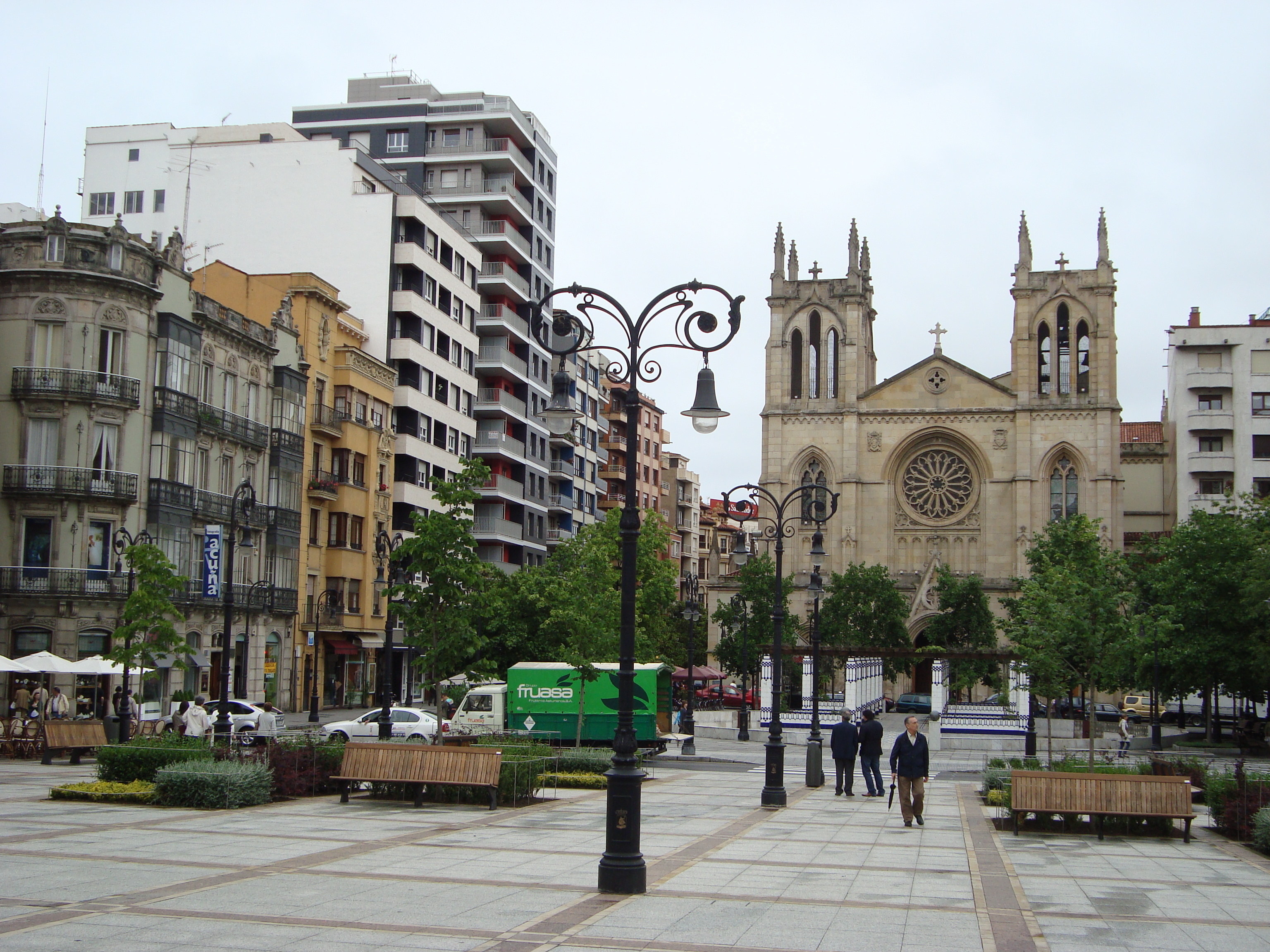 San Lorenzo, Gijon